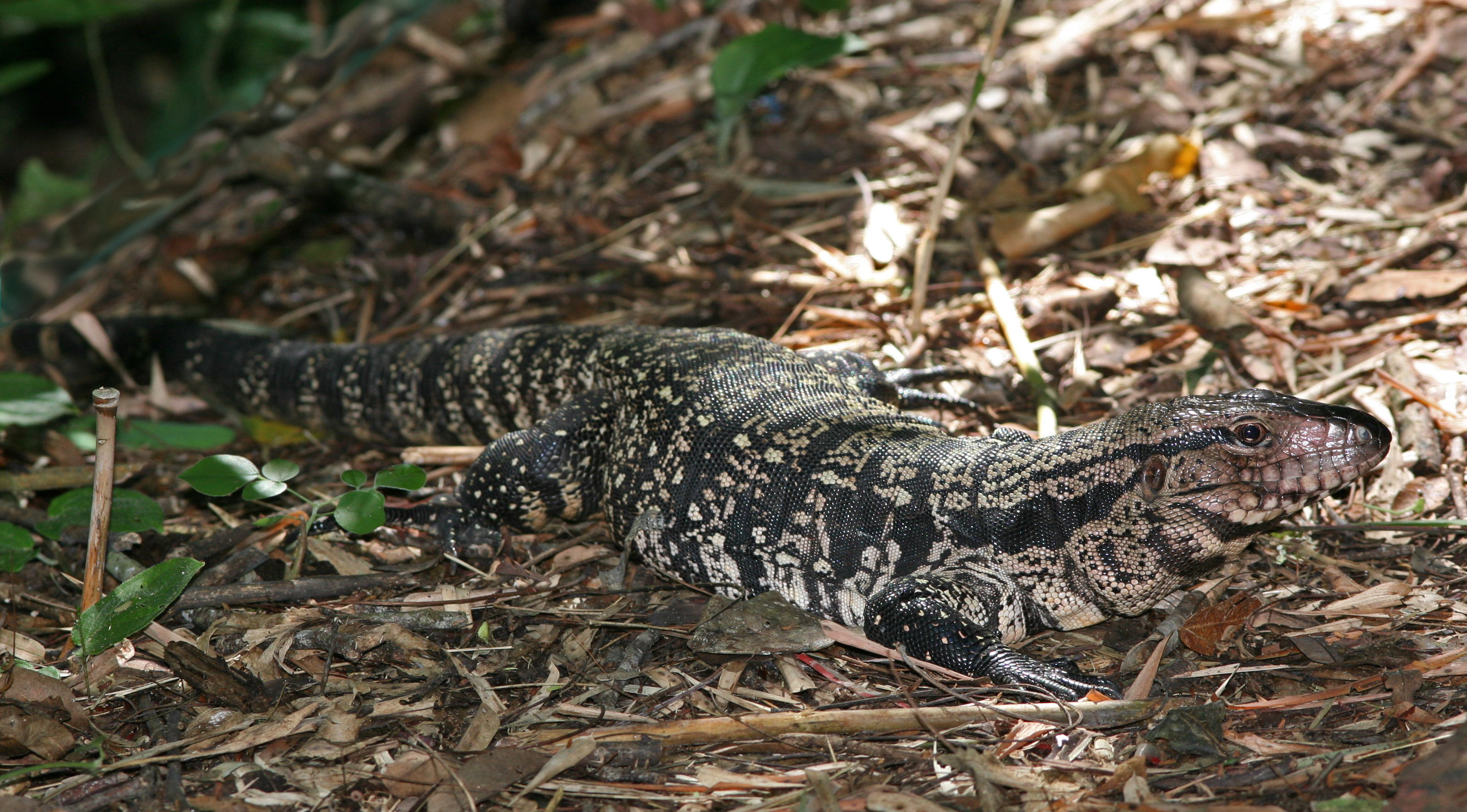 Argentine Black and White Tegu (Tupinambis merianae) in natural setting (forest floor), Iguazu National Park, Argentina